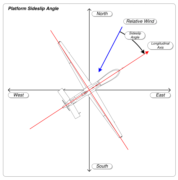 Platform Sideslip Angle